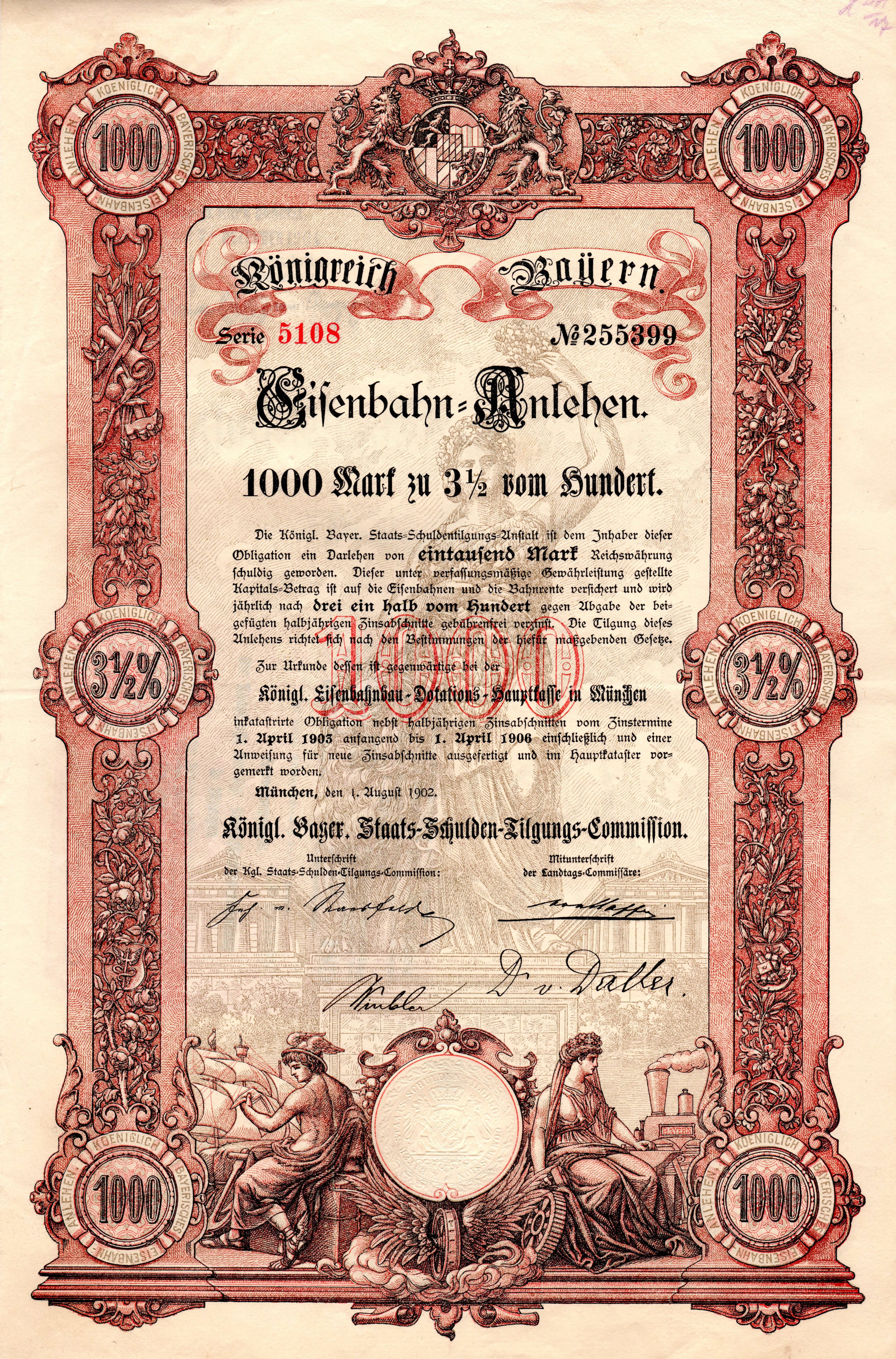 Bond of the Kingdom of Bavaria, issued 1st August 1902